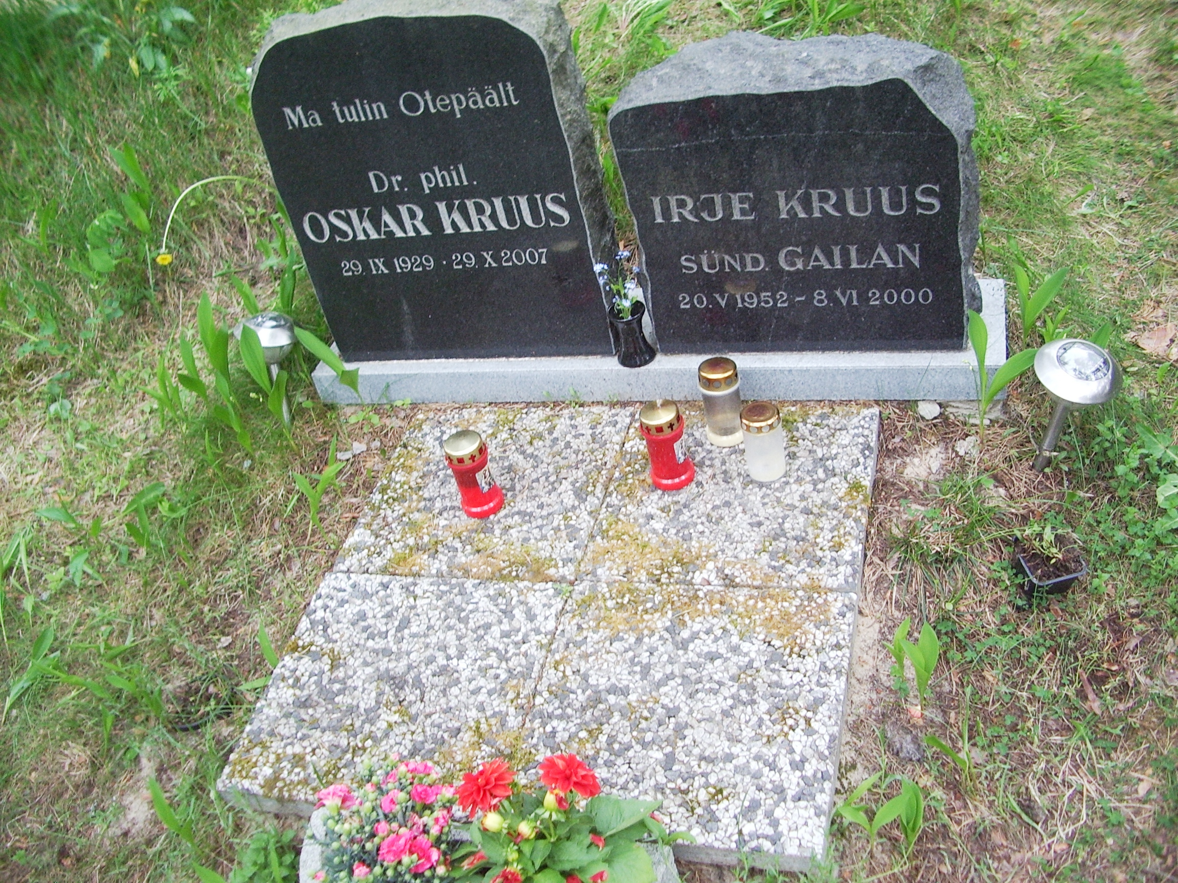 Tomb of Oskar and Irje Kruus